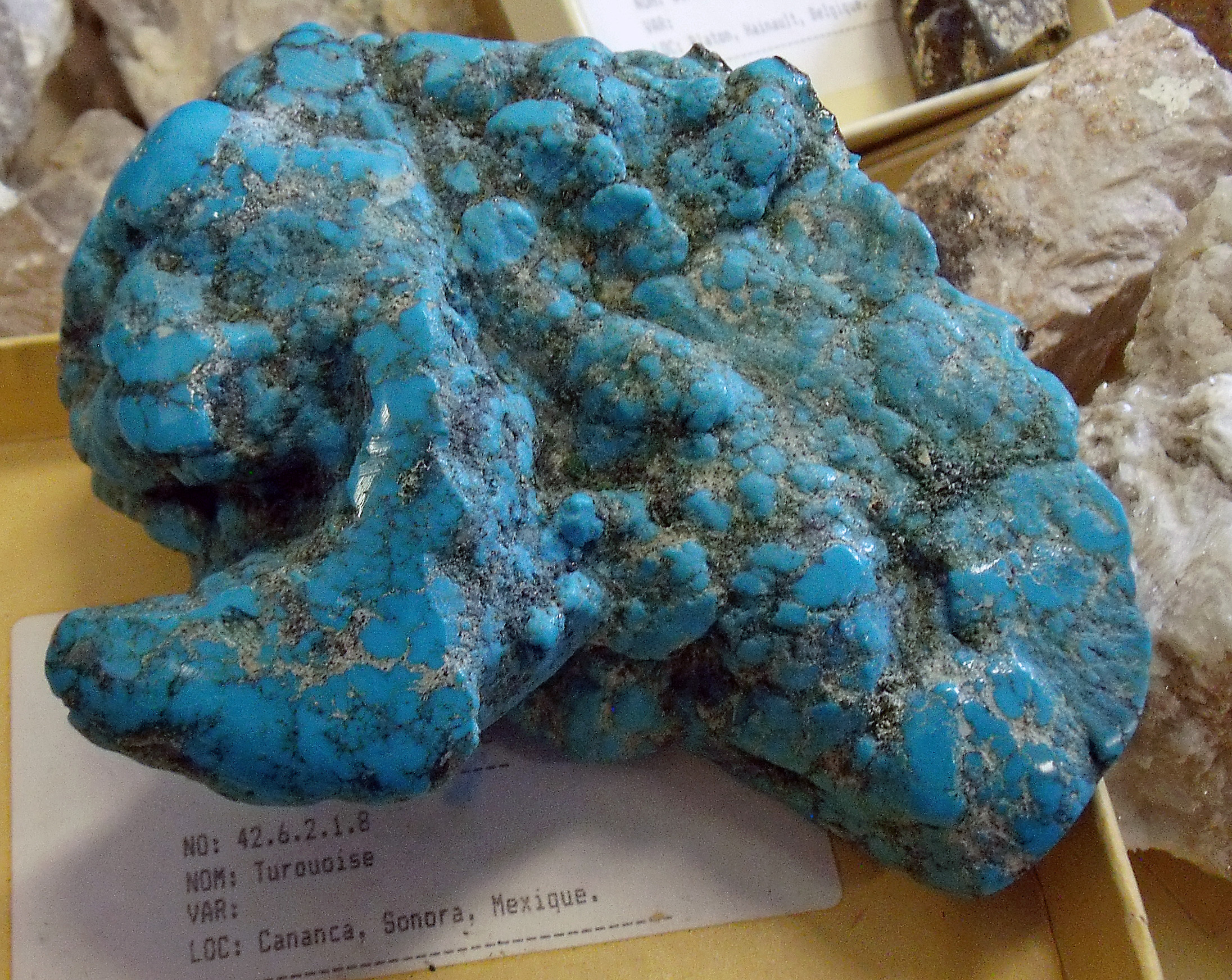 Two-handed grip is needed for this turquoise cobble from Mexico. Big Blue was in the curator's storeroom, Geology Floor, Lavalle University, Quebec City, Canada